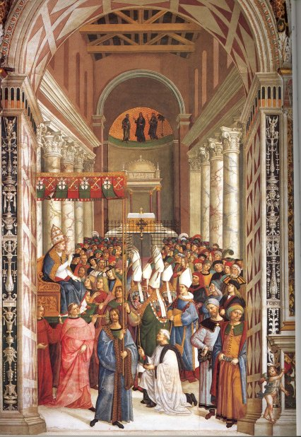 Election of Pope Pius II from Pinturicchio